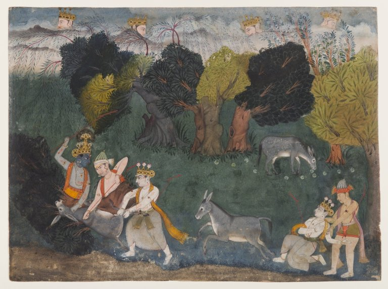 This is an illustration from the Bhagavata Purana, a lengthy Hindu scripture dedicated to the god Krishna, who is said to have lived on earth as a prince. When Krishna (with blue skin) and his brother, Balarama (with white skin), approached a grove in hopes of picking fruit, Dhenuka, a demon who took the form of a donkey (or ass), kicked Balarama in the chest. In the lower right corner of the painting, Balarama is shown recovering from the blow. In the lower left, we see Balarama’s revenge, which was to grab the donkey by the back legs and fling him through the air; the demon died upon landing a great distance away. This repetition of figures to depict several episodes in a single composition is typical of storytelling imagery in India. The beauty of the forest backdrop here belies the violence of the story, none of which is actually illustrated in the painting.